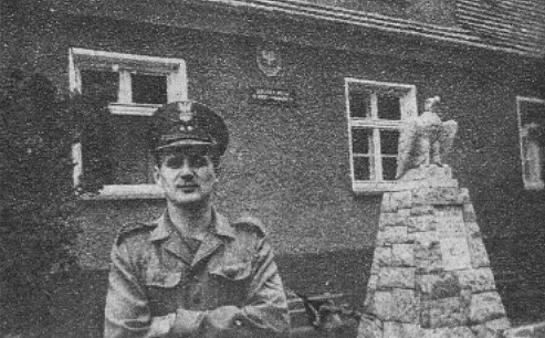 Border Protection Forces in Gierałcice, Poland.